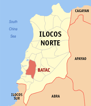 Map of Ilocos Norte showing the location of Batac